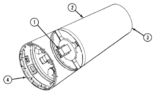 Pershing II warhead section